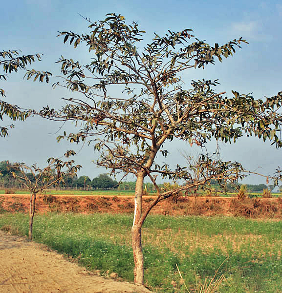 Arjun Terminalia arjuna in Kolkata, West Bengal, India.